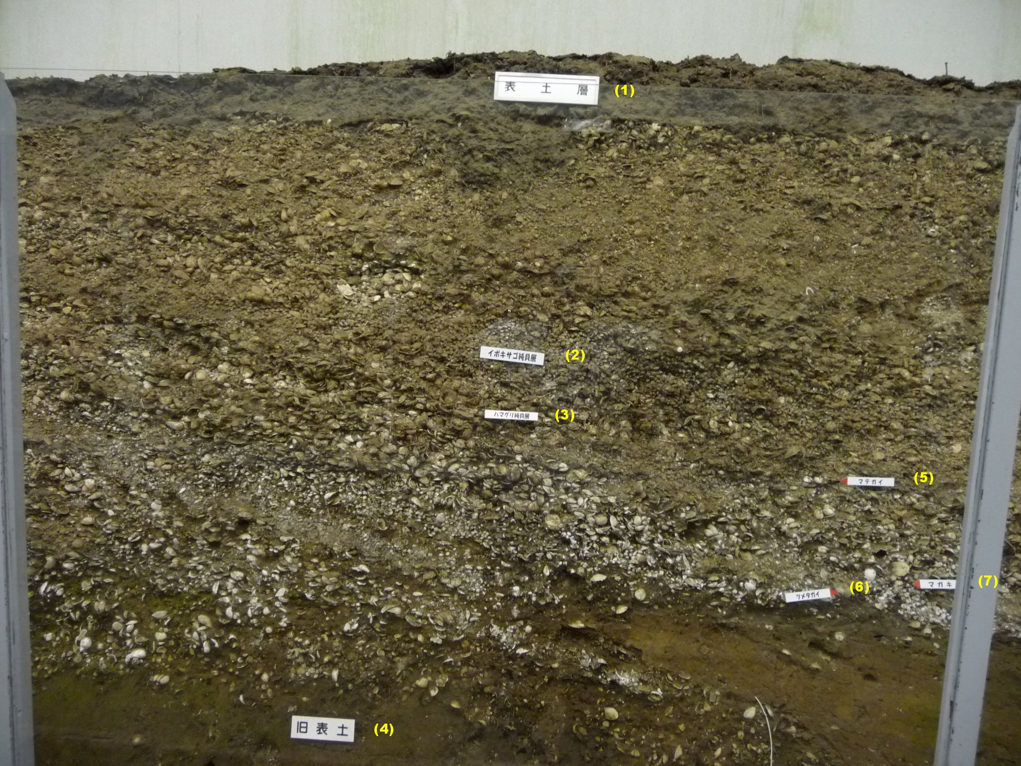 Shell midden stratum Shell midden stratum, Kasori midden preserve north, Chiba Japan. Widest shell midden in Japan. (1) Surface soil stratum, (2) Umbonium moniliferum only stratum, (3) Meretrix lusoria (Common orient clam)only stratum, (4) Old or previous surface soil stratum, (5) Solen strictus (Razor clam), (6) Glossaulax didyma didyma (Bladder Moon shell), (7) Crassostrea gigas (Oyster) Number with parenthesis is added by author.